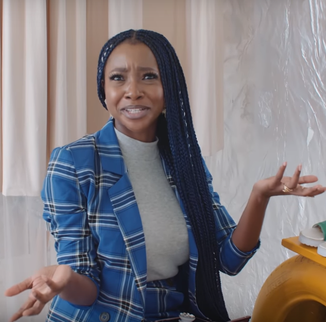 Ini Dima-Okojie is a Nigerian actress and former investment banker here on 37 Questions in April 2019